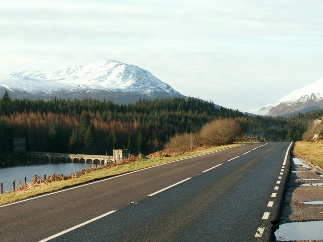 The A86 at Loch Laggan The Laggan Dam Wall can be seen bottom left hand quarter and the Munro mountain Stob a' Choire Mheadhoin top left hand.